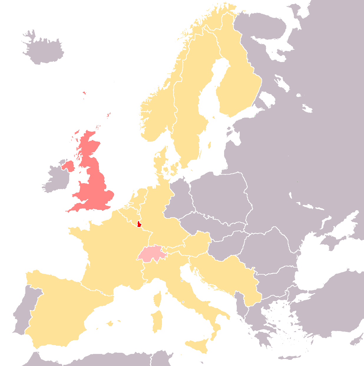 Map of Eurovision 1958